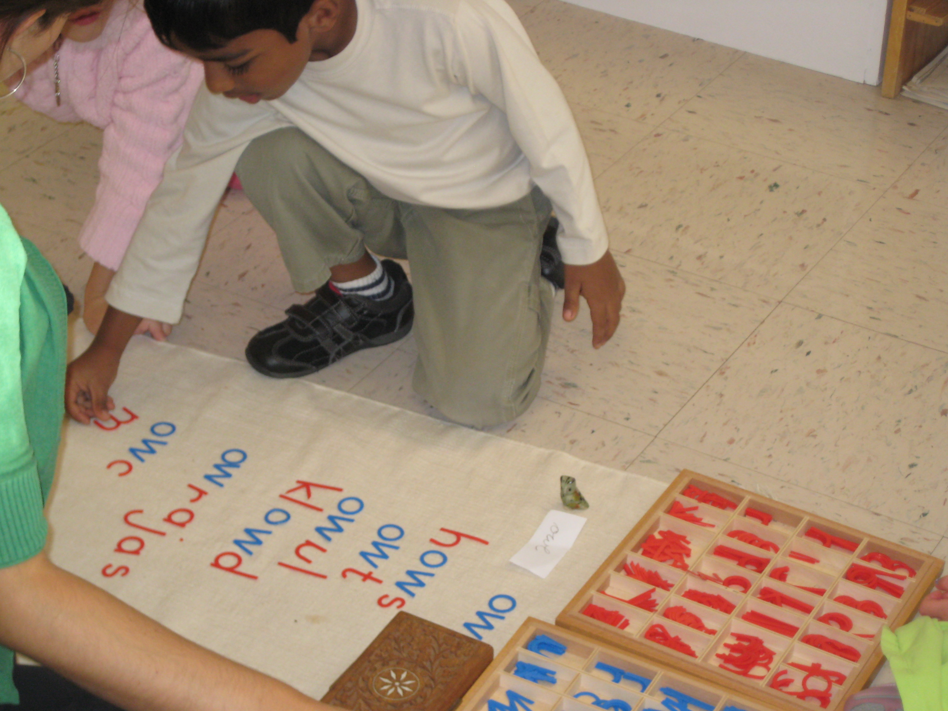 Children working on the phonogram moveable alphabet